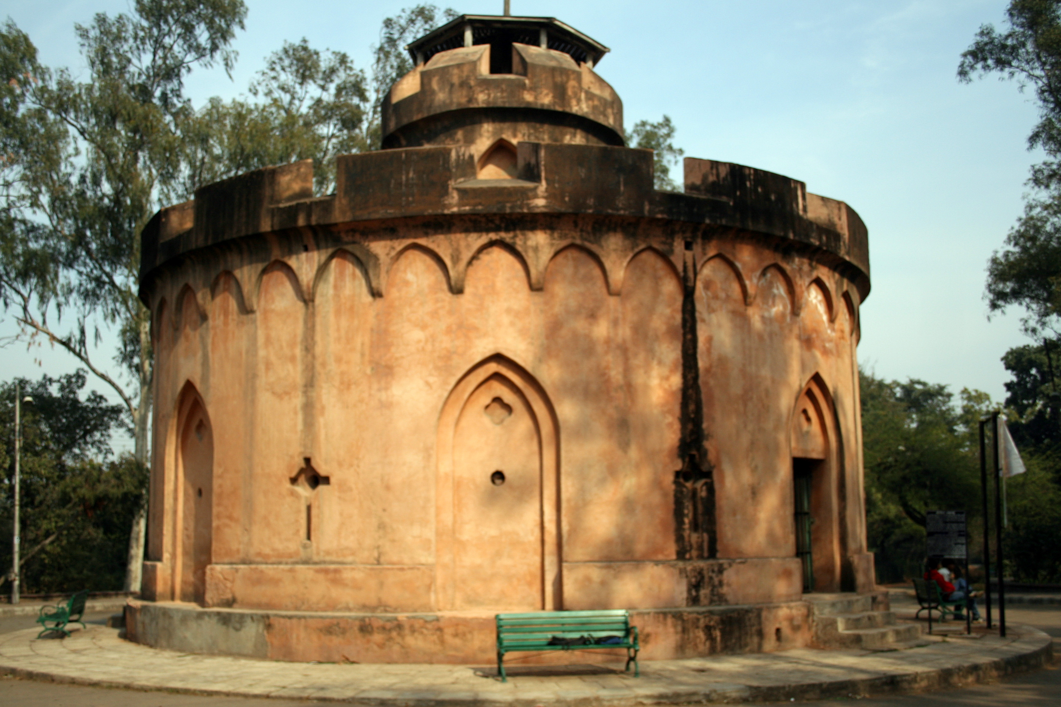 Flag Staff Tower This monument is 500 m from entrance gate of DDA Park at Kamala Nehru Ridge on University Road.It was originally a signal tower. Flag staff Tower is the spot where British ladies and children gathered during the Revolt of 1857, before they fled to Karnal.